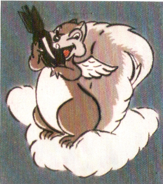 Scanned from *Millstein, Jeff. (1995). United States Marine Corps Aviation Squadron Unit Insignia, 1941 - 1946. Turner Publishing Company. ISBN 1-56311-211-6. Squadron logo for MOTG-81